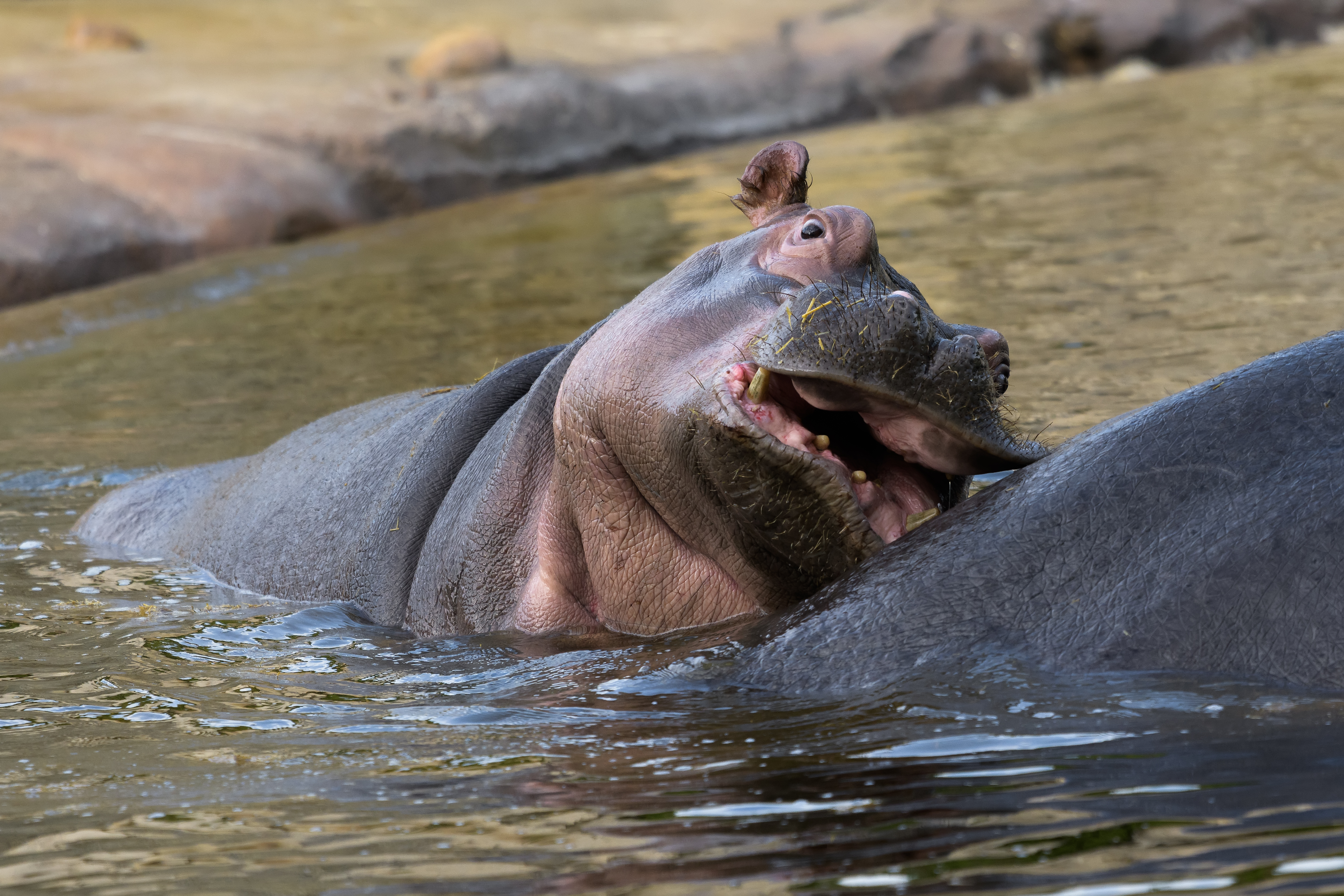 Hippopotamus in the outside enclosure of new Hippo House; hippo baby in the pool